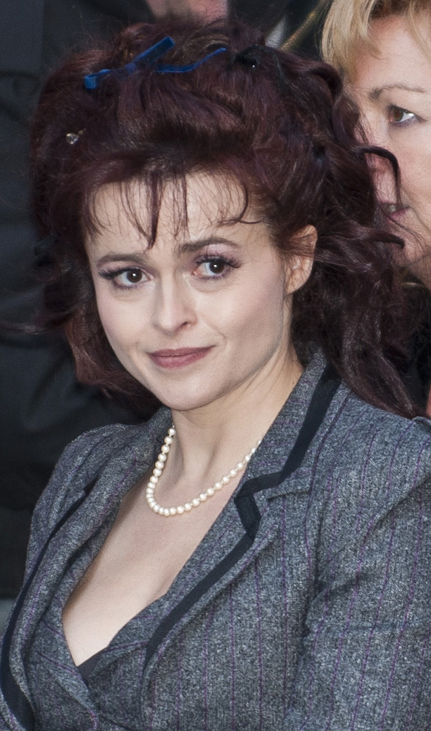 Helena Bonham Carter at the press conference of "Toast".